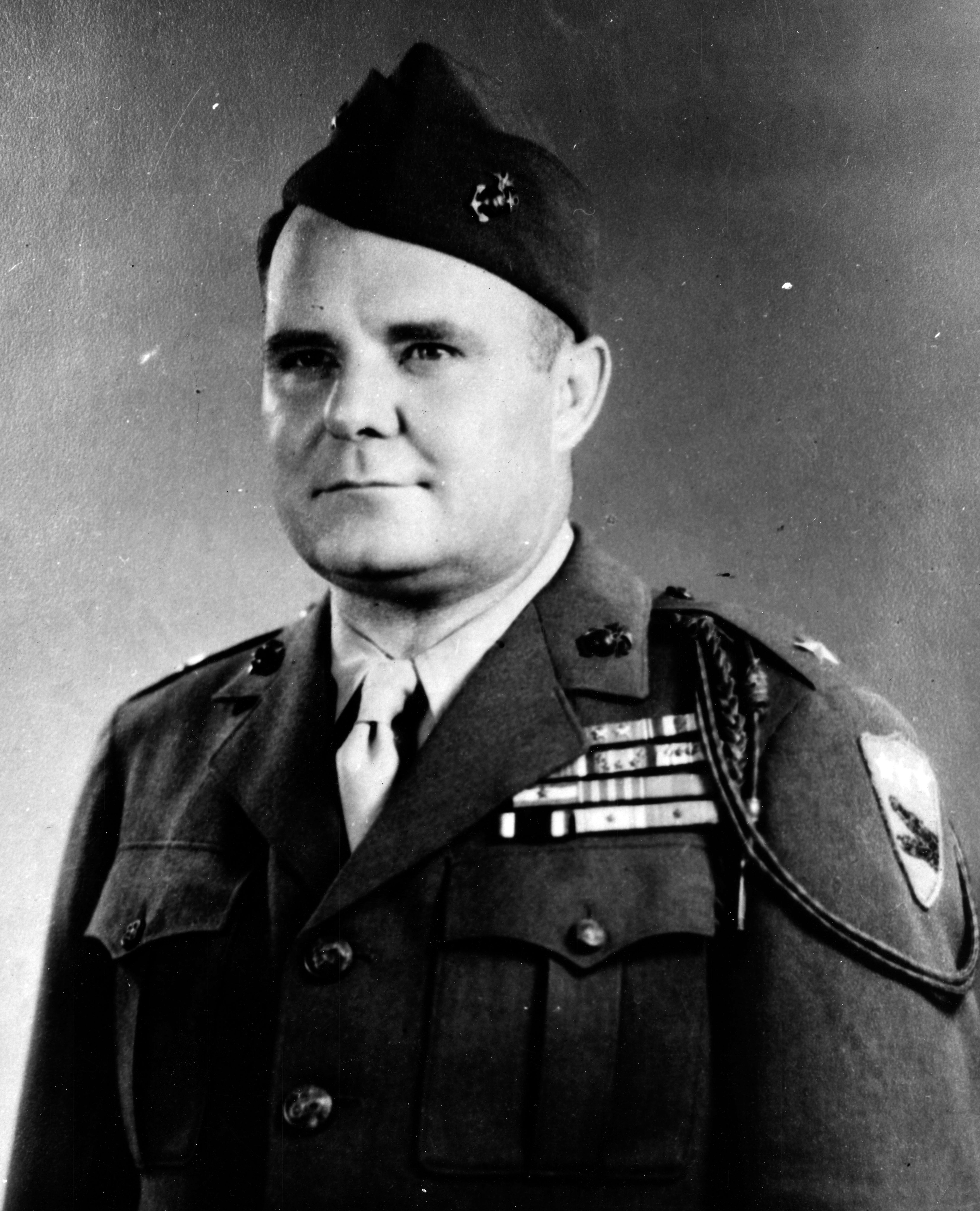 William Walter Rogers (December 25, 1893 – October 15, 1976) was a highly decorated Officer of the United States Marine Corps with the rank of Major General, who served as Staff officer in Asiatic-Pacific Theater during World War II.